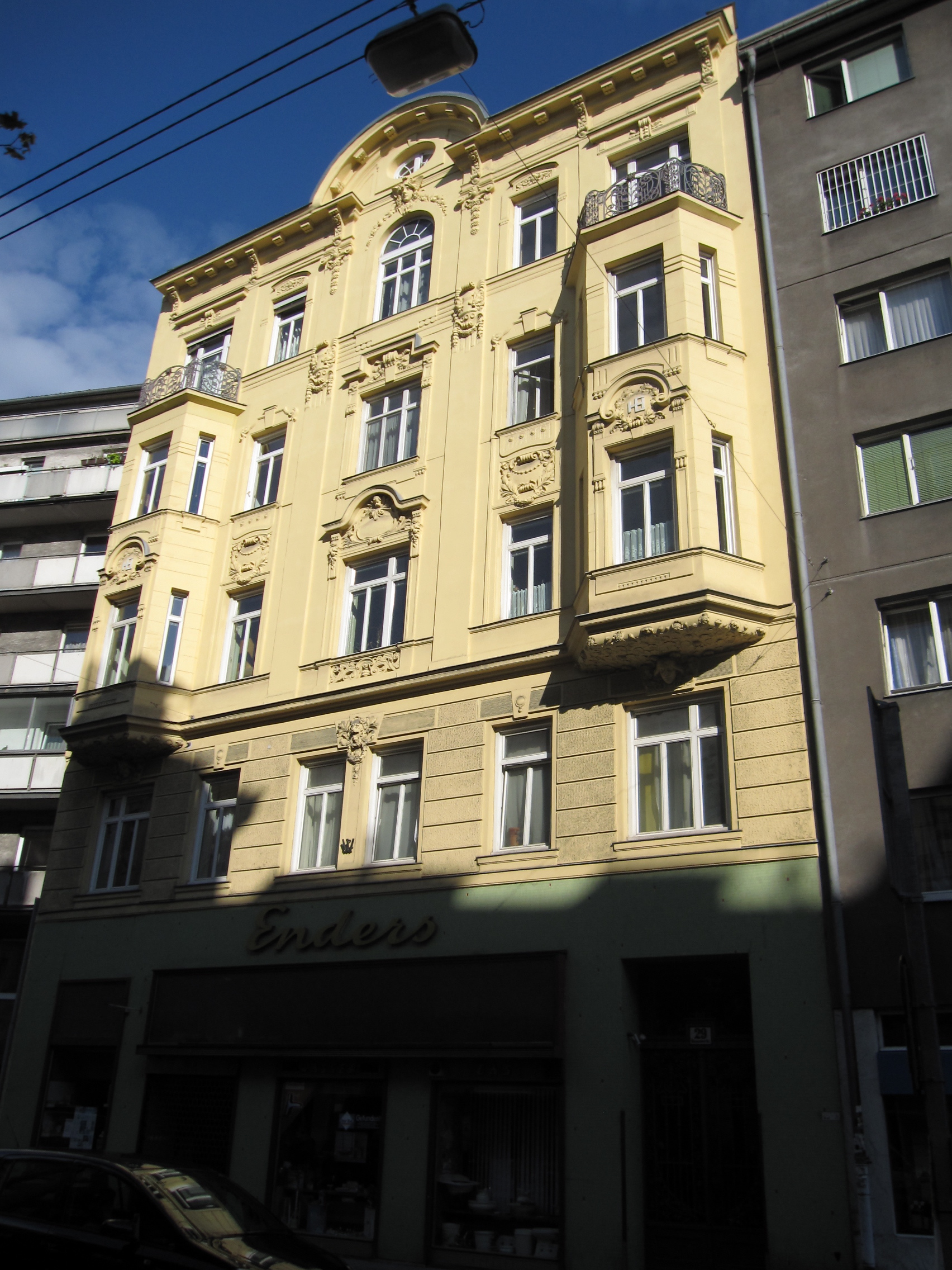 Heinrich Enders in Vienna